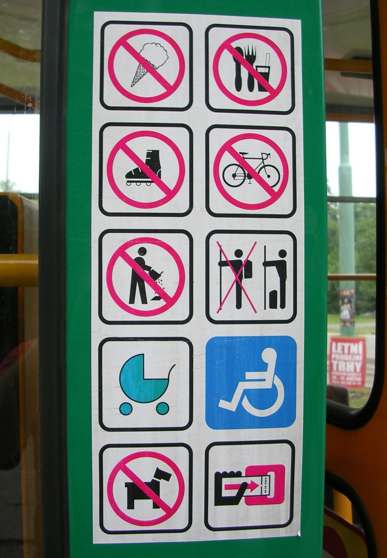 Tramway line between Liberec and Jablonec. The Czech Republic. Symbols at tram vehicle.